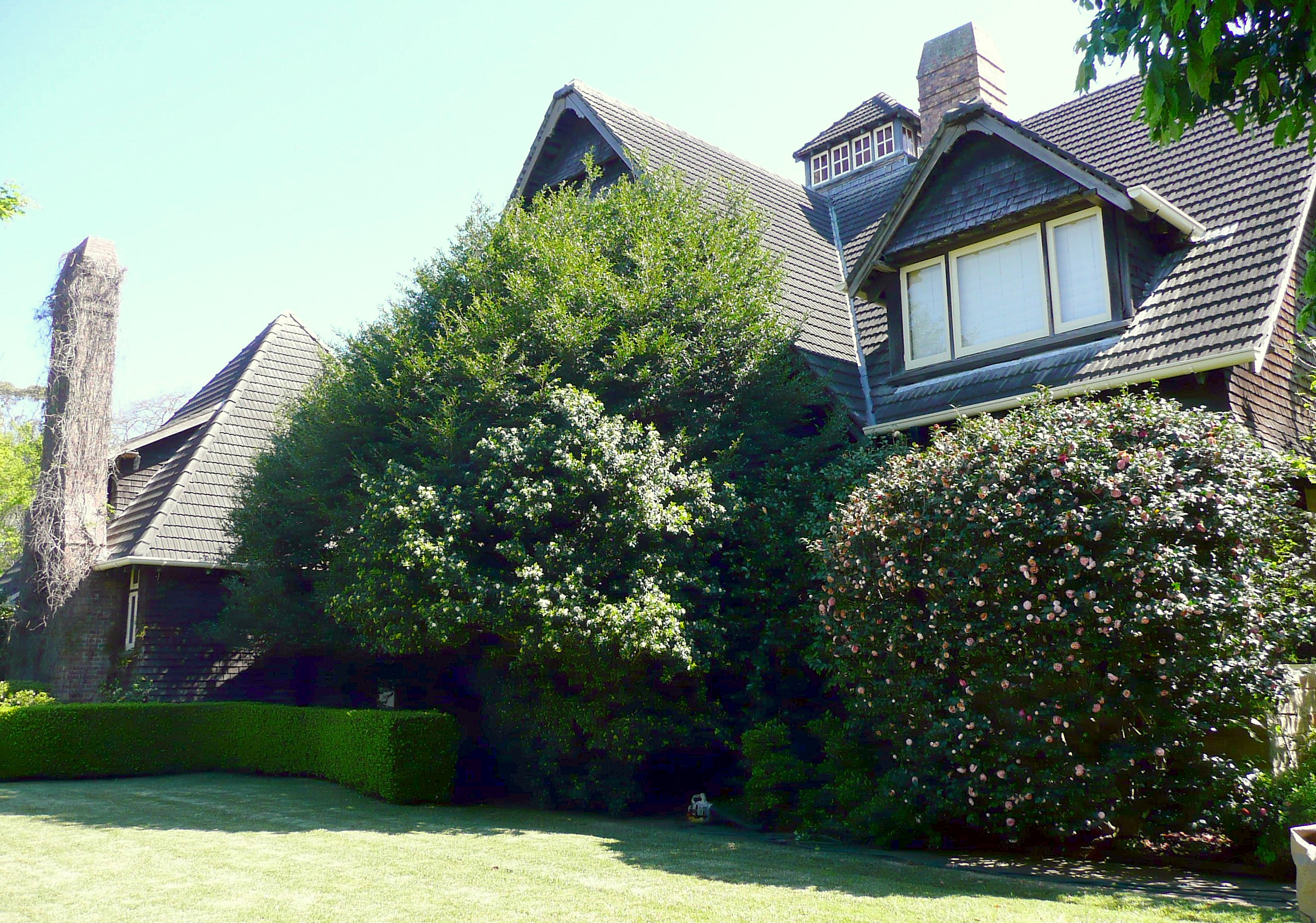 Highlands, Wahroonga, Sydney (this image has been altered by Sardaka, 2014-1-7, including straightening, sharpening and warming of colours)